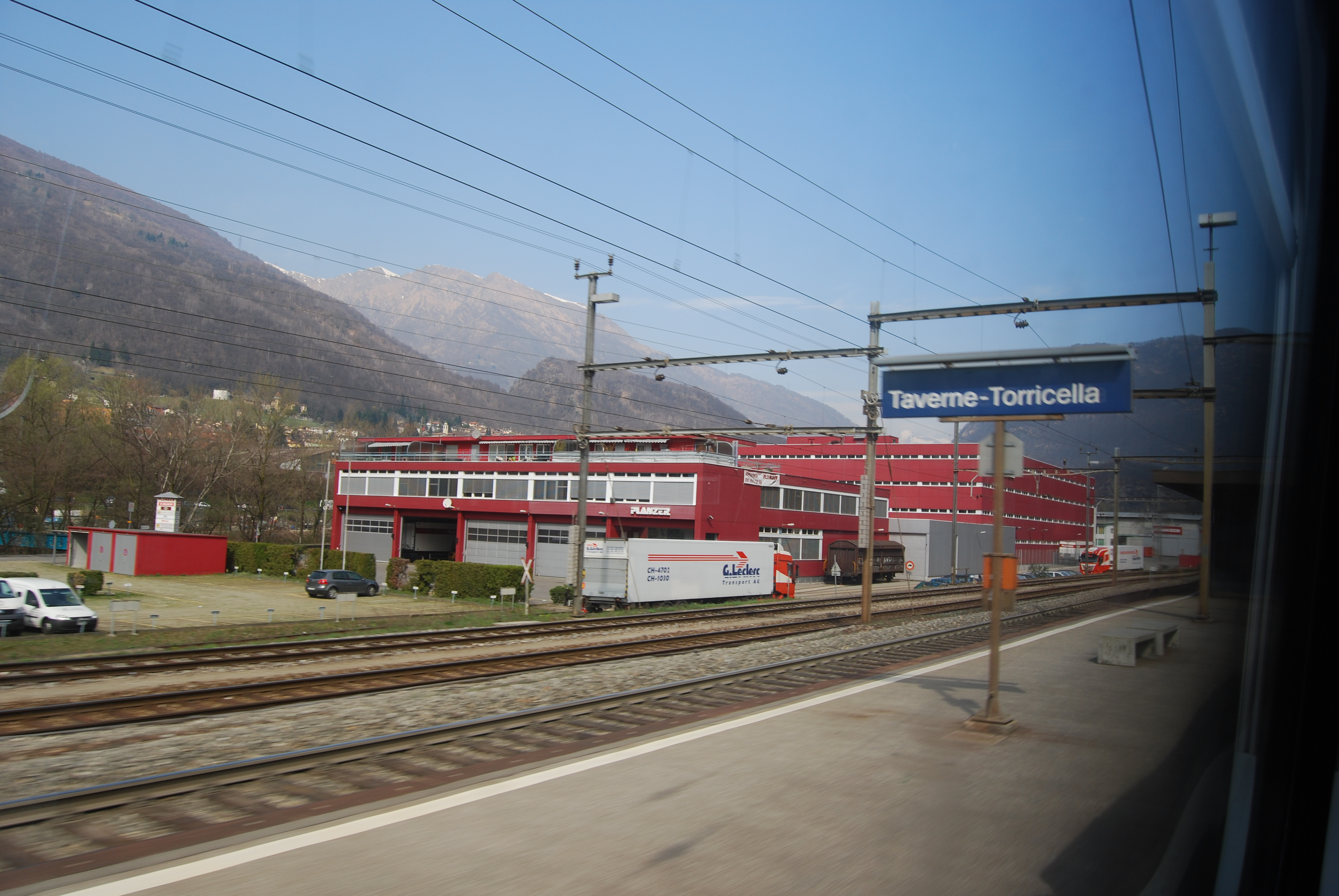 Torricella-Taverne, canton of Ticino, SwitzerlandEsperanto: Torricella-Taverne, Kantono Tiĉino, Svislando